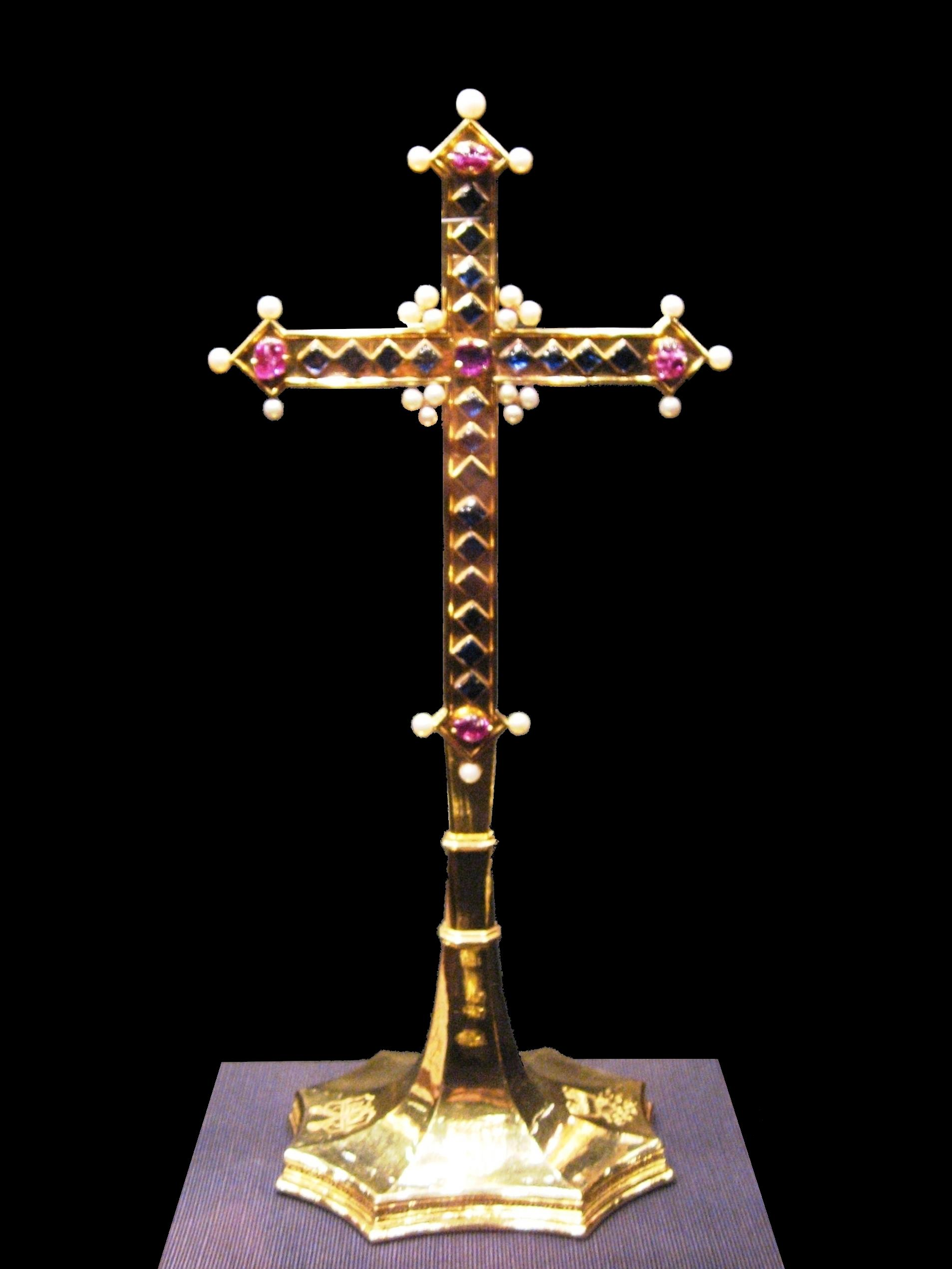 Swearing-in cross of the Order of the Golden Fleece.